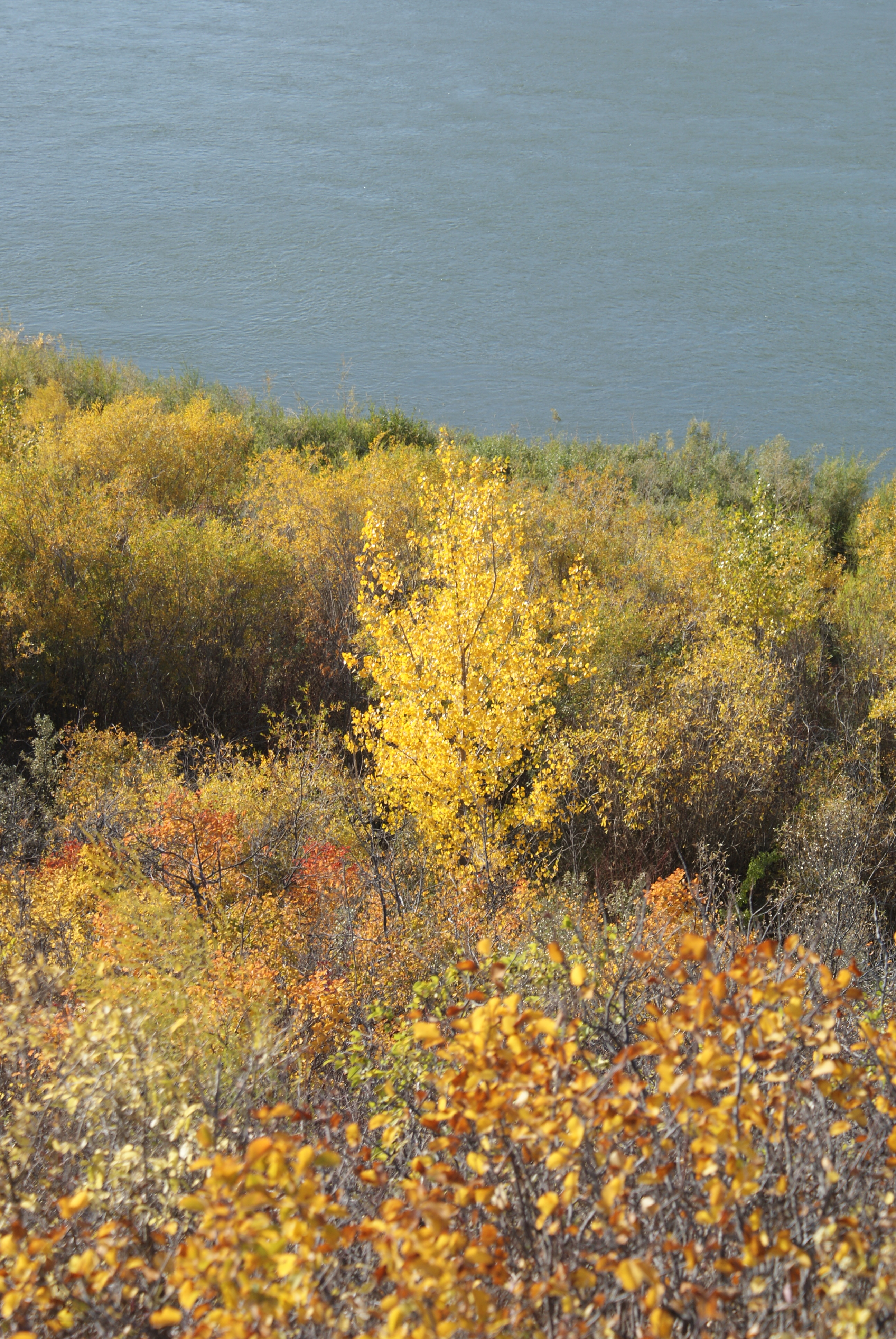 Black poplar or Balsam poplar probably populous balsamifera with gnarling in the trunk. Found on the banks of the South Saskatchewan River in Saskatoon